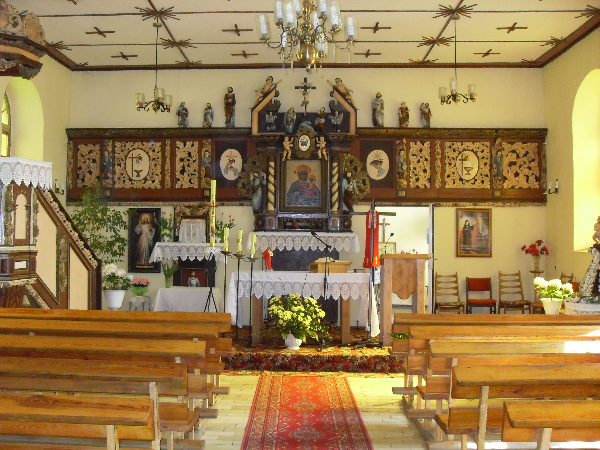 Our Lady of Częstochowa church in Karścino, Poland